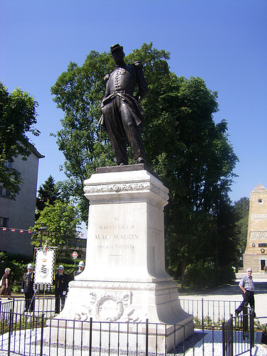 Genera Mac Mahon's monument in Magenta (Italy)